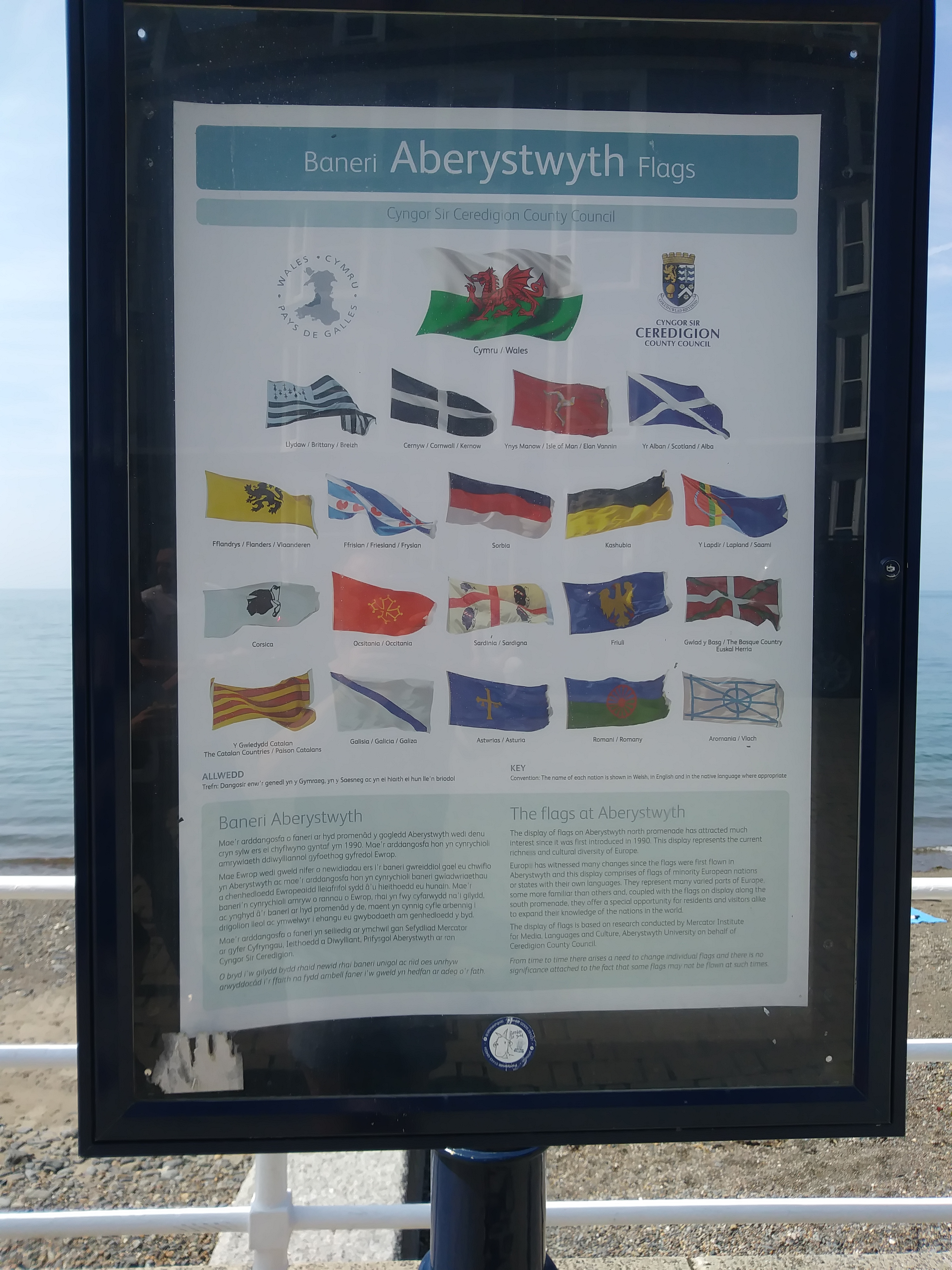 Aberystwyth flags of non-independent nations and minorities languages,sign 2